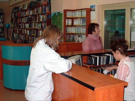 Reception in Bemowo Library.